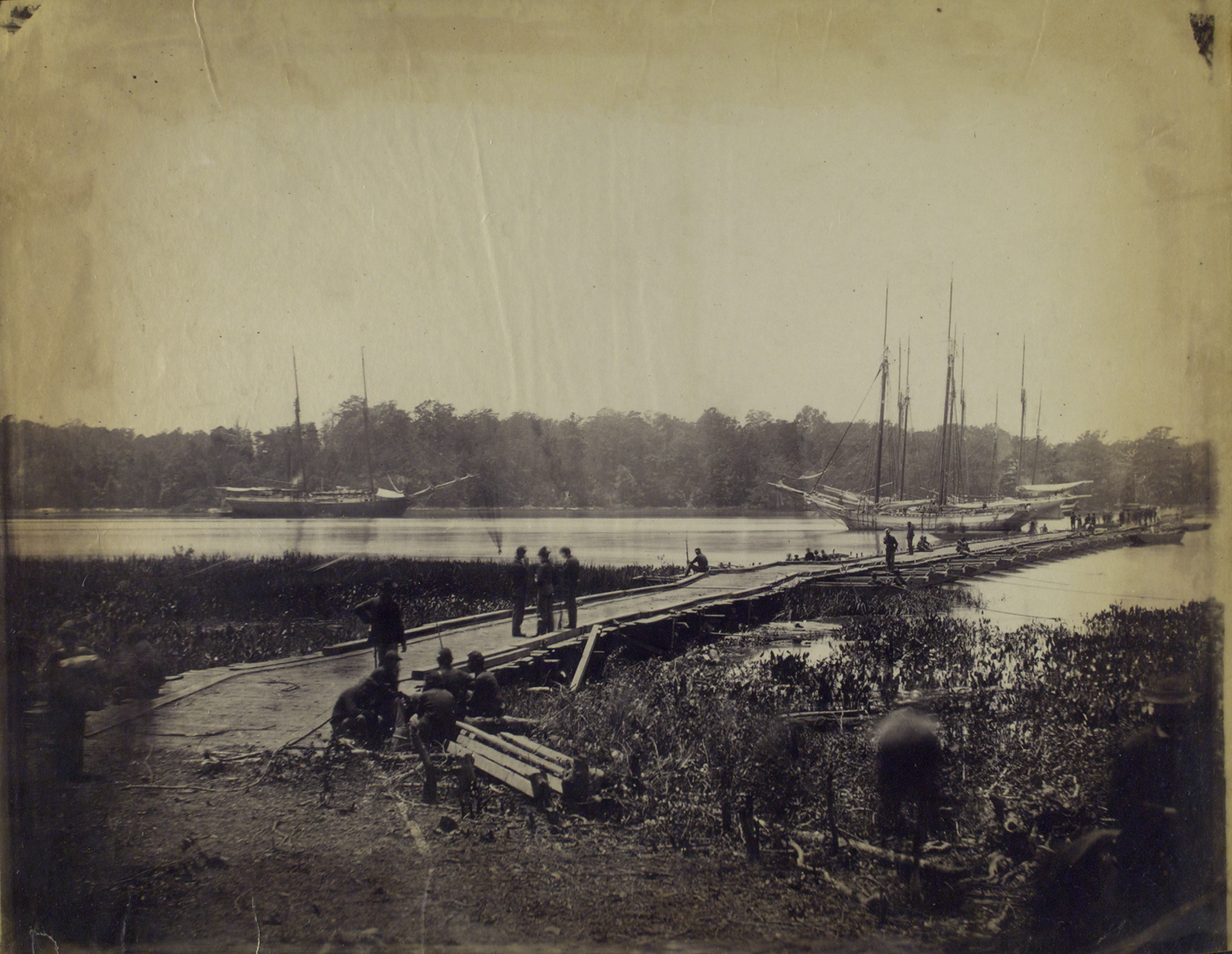 Digital ID: 1150142. Pontoon bridge across the James [Men sitting and standing in foreground, ships at anchor in river].. United States Sanitary Commission -- Creator. Gardner, Alexander -- Photographer. c. 1865; Date depicted: 1864 Notes: Illus. in: Gardner's photographic sketch book of the war, v. 2, no. 69. Source: United States Sanitary Commission records, 1861-1872, bulk (1861-1865). / Photographs, prints and drawings / Photographs and drawings (more info) Repository: The New York Public Library. Manuscripts and Archives Division. See more information about this image and others at NYPL Digital Gallery. Persistent URL: Rights Info: No known copyright restrictions; may be subject to third party rights (for more information, click here)